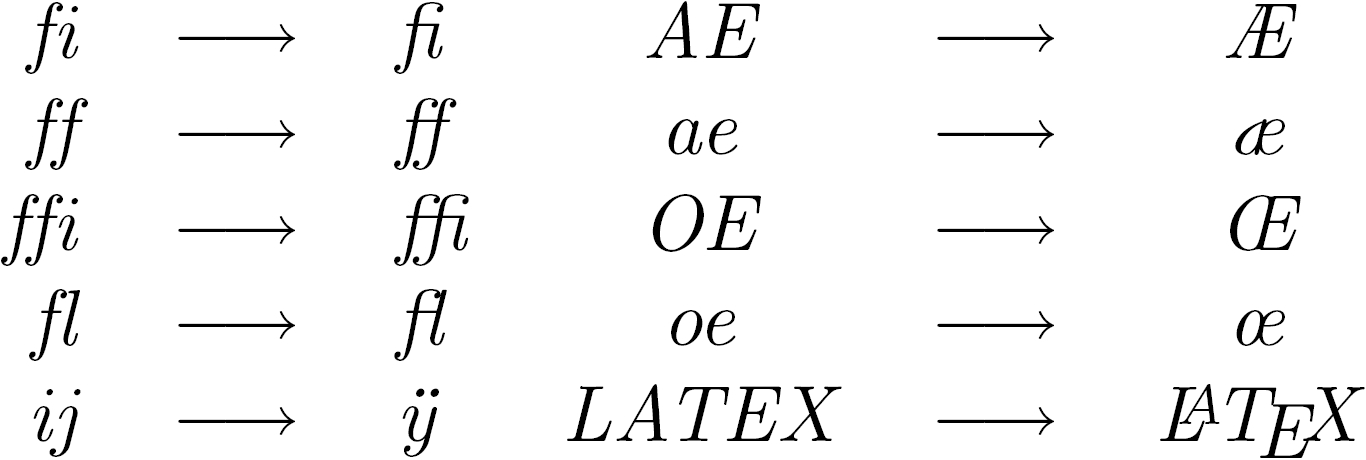 Ligatures in LaTeX